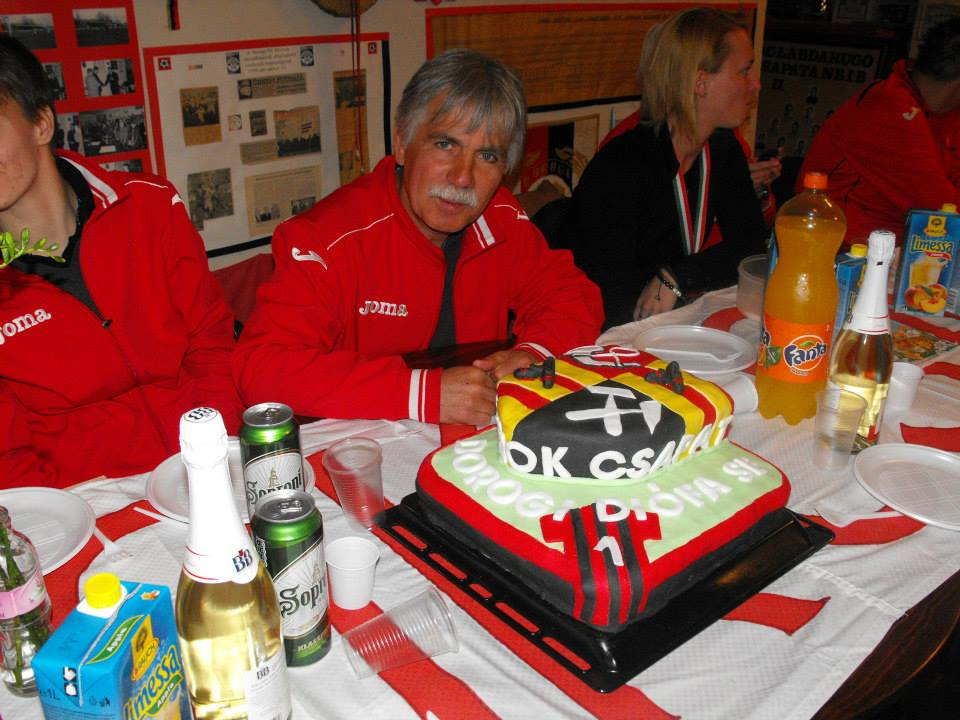 Gyorgy Szabados the coach of Dorogi Diófa SE with the special champion cake on the Champion celebration potluck